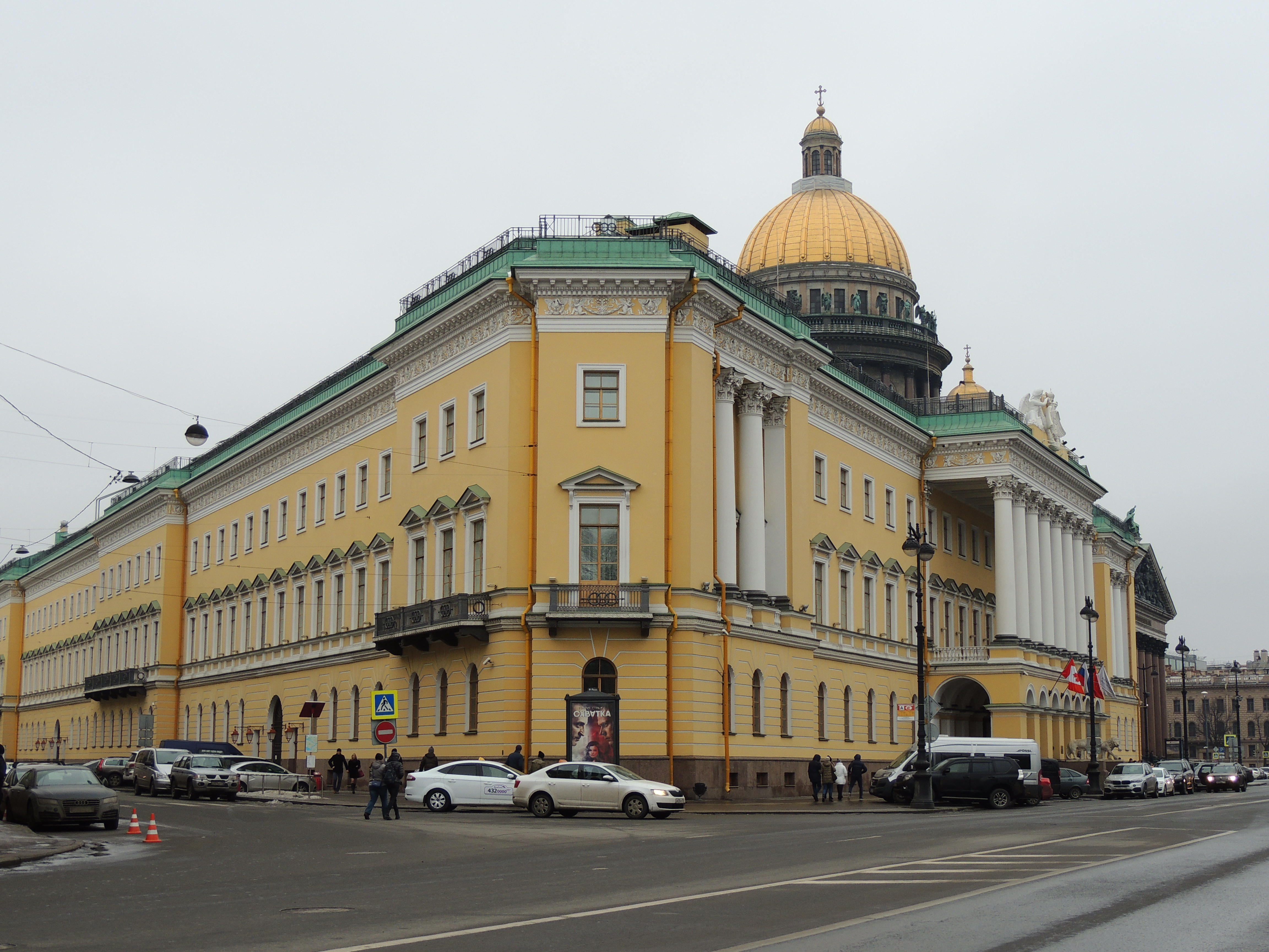 The building of the Ministry of War 1817-1820